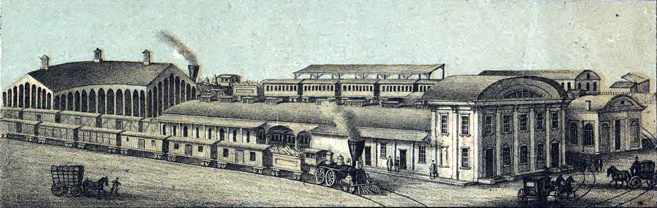 Illustration of President Street Station, Baltimore, Maryland, in 1869. View looking south. The passenger depot was built by the Philadelphia, Wilmington and Baltimore Railroad (PW&B) in 1850. Seen to the left, behind the headhouse, is the 208 ft long, barrel-vaulted train shed. To the right is the freight station, built in 1852. Seen in front of the station, on President Street, is a track used to transfer passengers (by horse-drawn cars) to the Camden Station of the Baltimore and Ohio Railroad. This illustration is an inset to the main, large scale perspective map. Contrast adjusted for legibility.